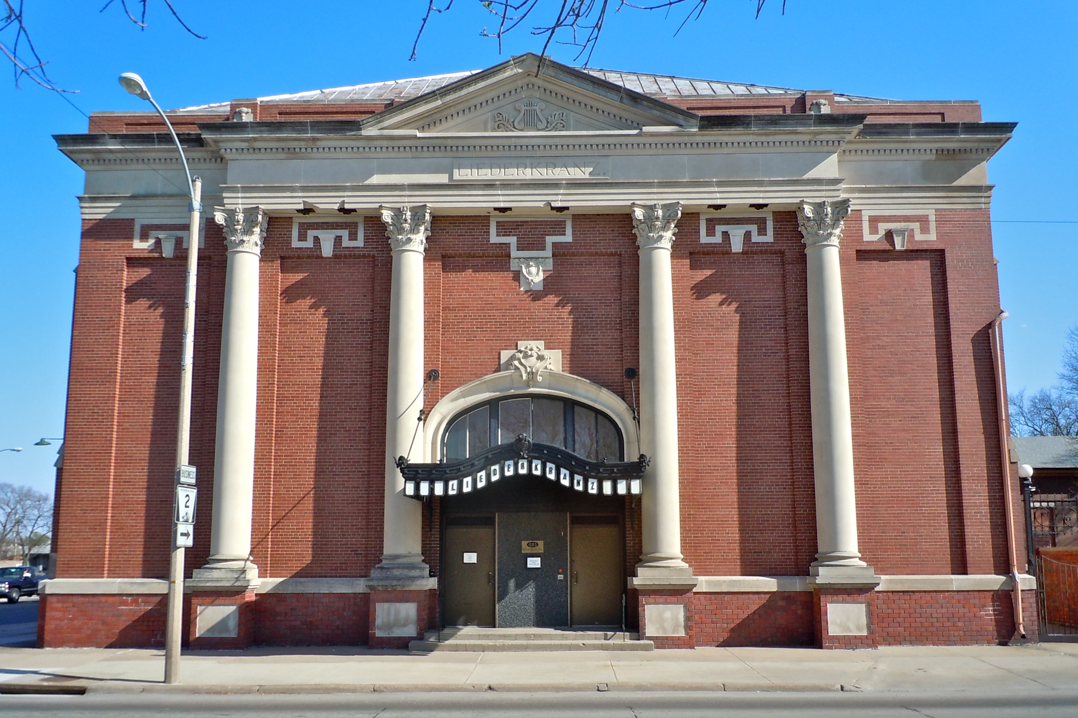 Liederkranz music hall on the NRHP since November 30, 1978. At 401 W. 1st St. in downtown Grand Island, Hall County, Nebraska.